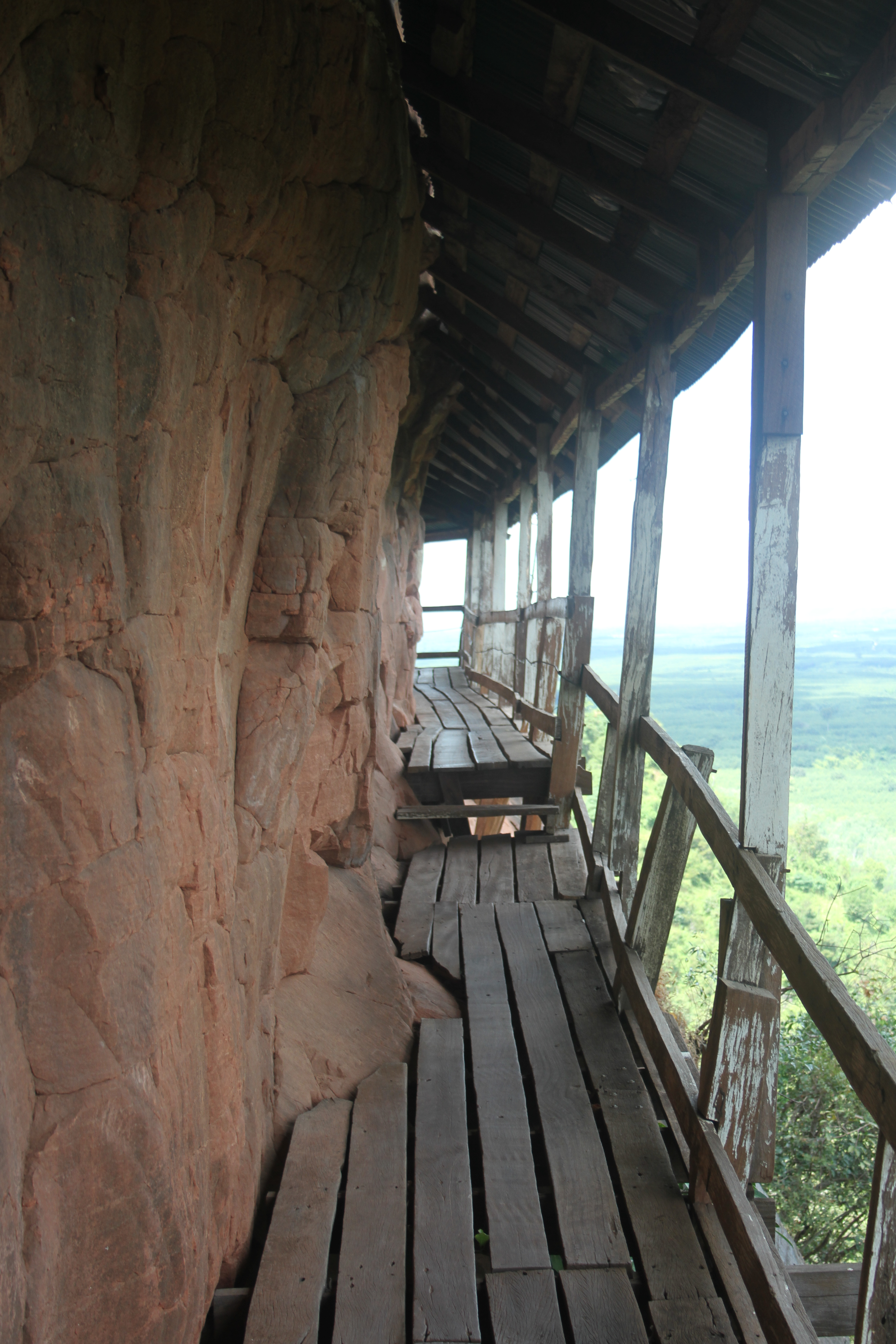 catwalk 200m high, in wood, scary, wonderfull view, all around the rock